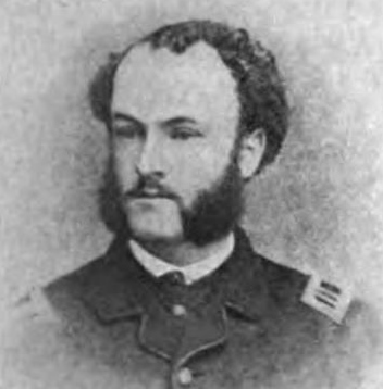 Shown here circa 1907, Sgt. John Nicholas Coyne (1839-1907), fought with Company B of the 70th New York Infantry as part of the Union Army during the American Civil War, and was awarded the U.S. Medal of Honor for the valor he displayed while capturing the enemy's flag (Confederate) in hand-to-hand combat at Williamsburg, Virginia on May 5, 1862.